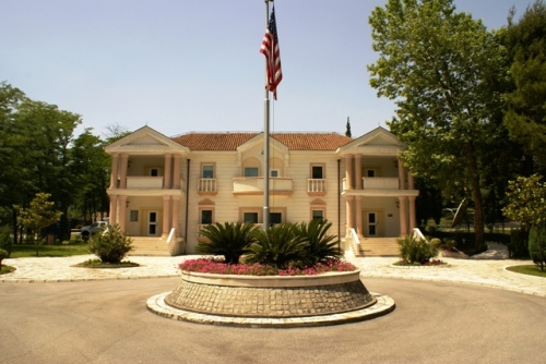 Former representative villa in royal garden in Podgorica, now embassy of Unites States.